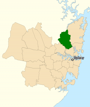 Division of Bradfield 2010. This image incorporates data that is: © Commonwealth of Australia